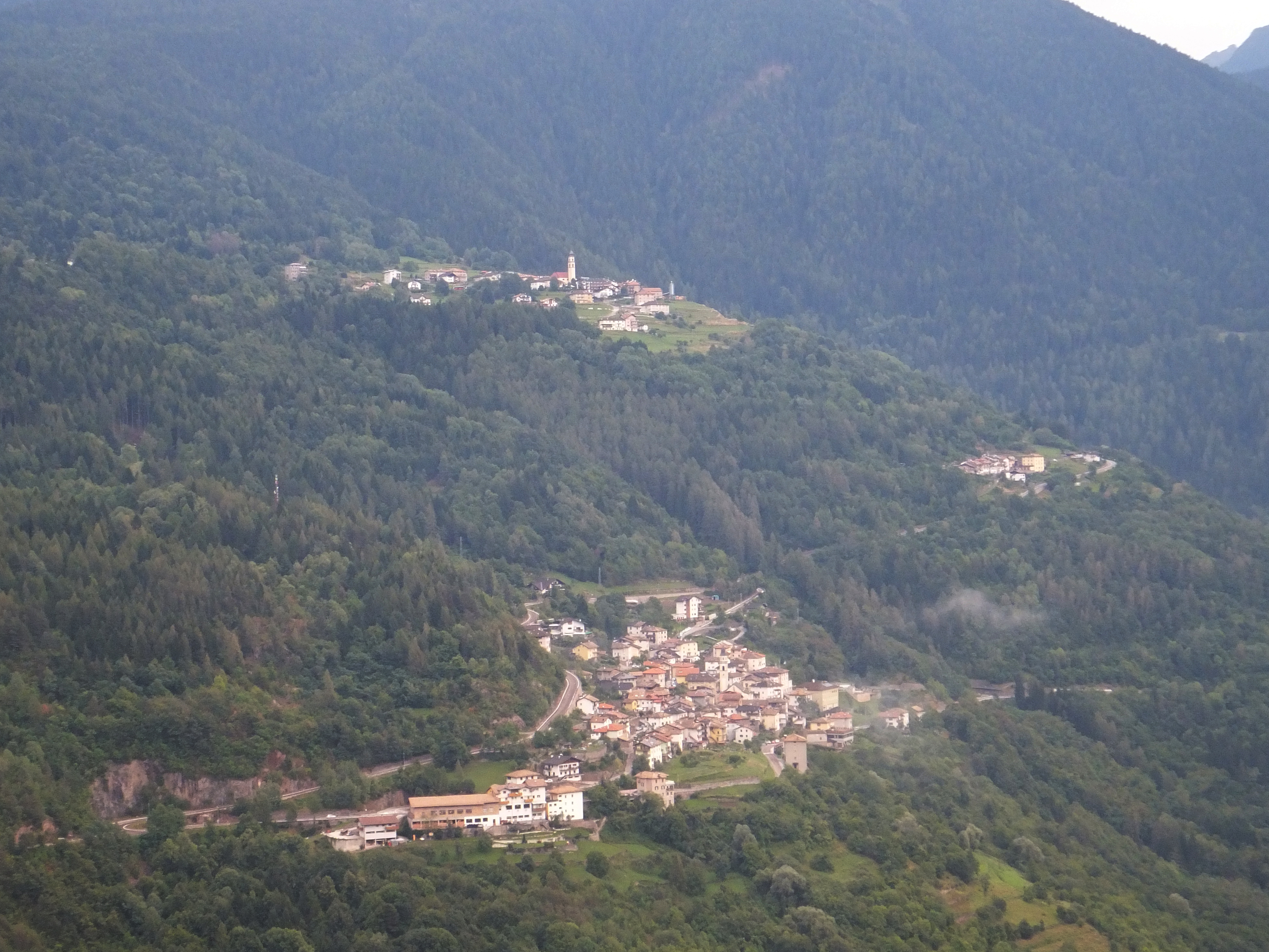 Sover (bottom) and his "frazioni" Montesover (top) and Facendi (right) seen from the town of Grauno